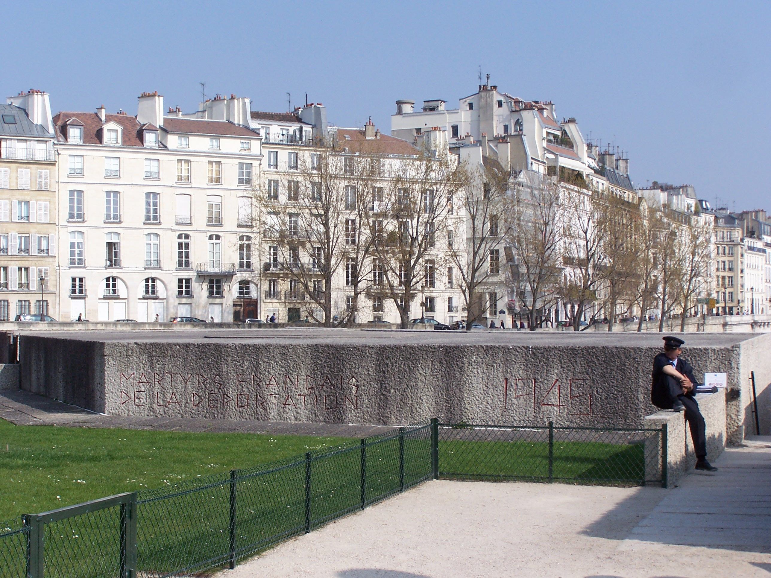 Entrance of the Mémorial aux victimes de la déportation, at the jardin de l'Île-de-France, Île de la Cité in Paris